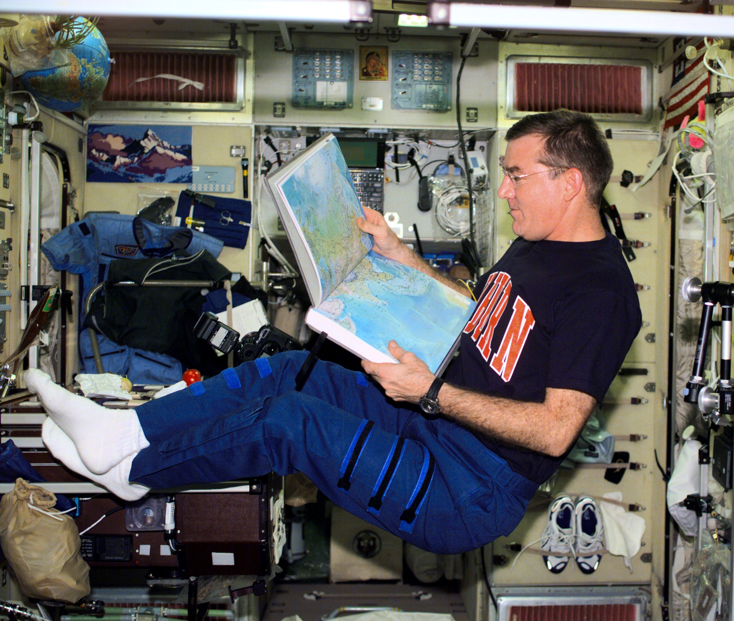 James S. Voss, Expedition Two flight engineer, looks over an atlas in the Zvezda Service Module. The image was taken with a digital still camera.